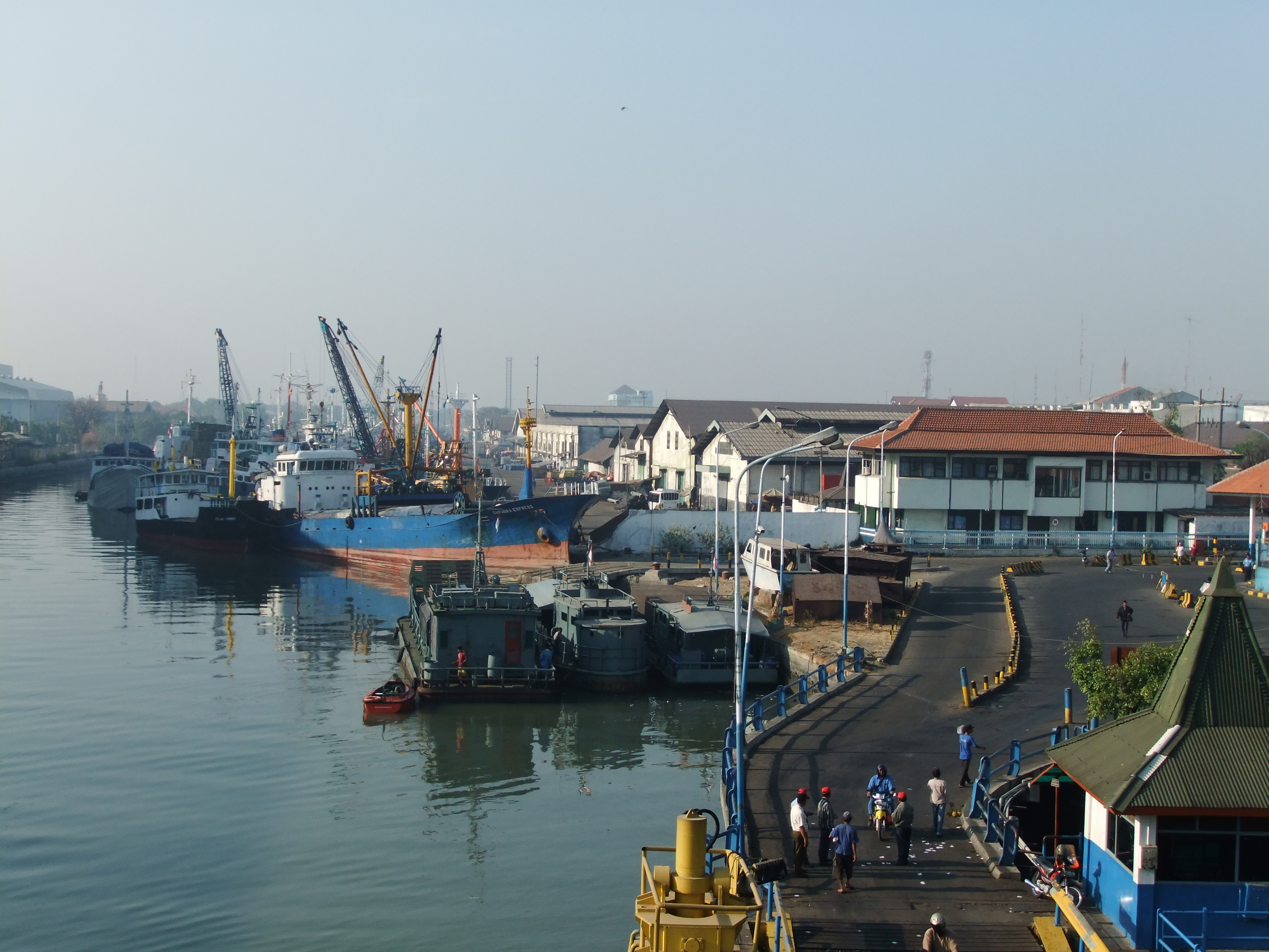 Ujung Port, Surabaya